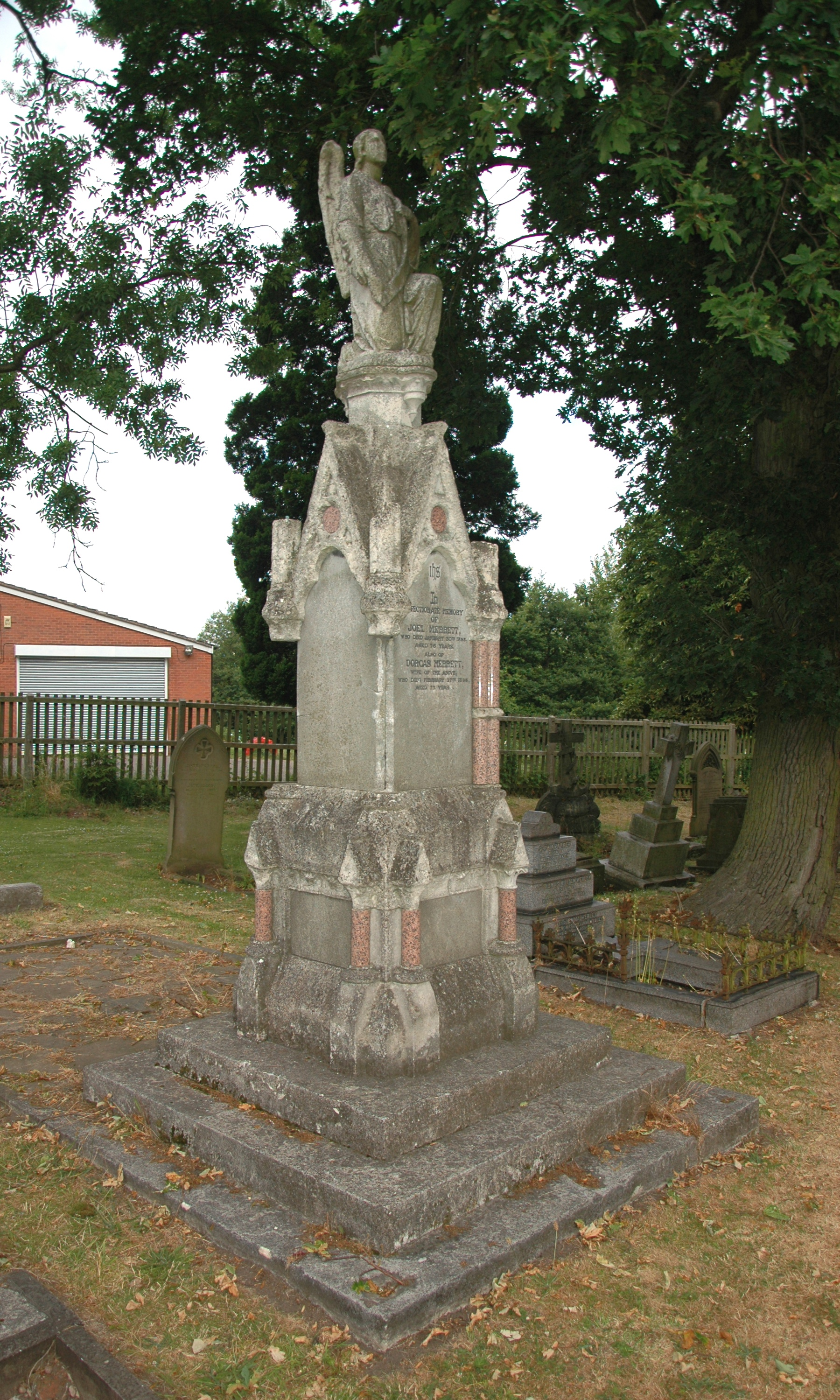 Church of England parish church of St Mary, Selly Oak, Birmingham: grave monument to Joel and Dorcas Merrett, died 1893